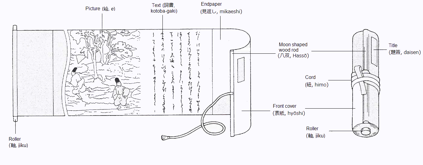 Outline of an emaki (narrative picture scrolls from Japan). Source: Masanori Aoyagi, 日本美術館 (Nihon bijutsukan), Shōgakkan, 1997, p. 560.